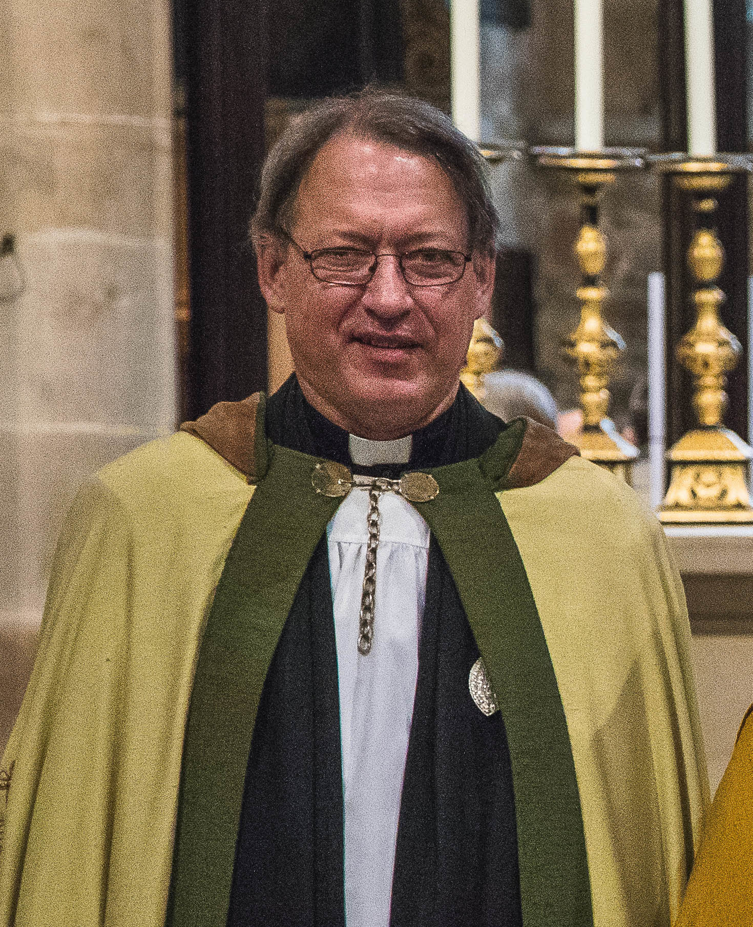 The Venerable Dr Christopher Cunliffe, Archdeacon of Derby; the Rt Revd Jan McFarlane, Bishop of Repton; the Rt Revd Dr Alastair Redfern, Bishop of Derby; the Venerable Carol Coslett, Archdeacon of Chesterfield and the Very Revd Stephen Hance, Dean of Derby. Photograph taken at the Collation and Commissioning Service for the eighth Archdeacon of Chesterfield at the parish church of Chesterfield, St Mary and All Saints - the Crooked Spire - on Saturday, 10 March 2018